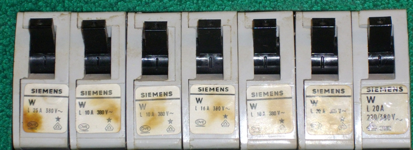 Switchable fuses from house electric distribution board